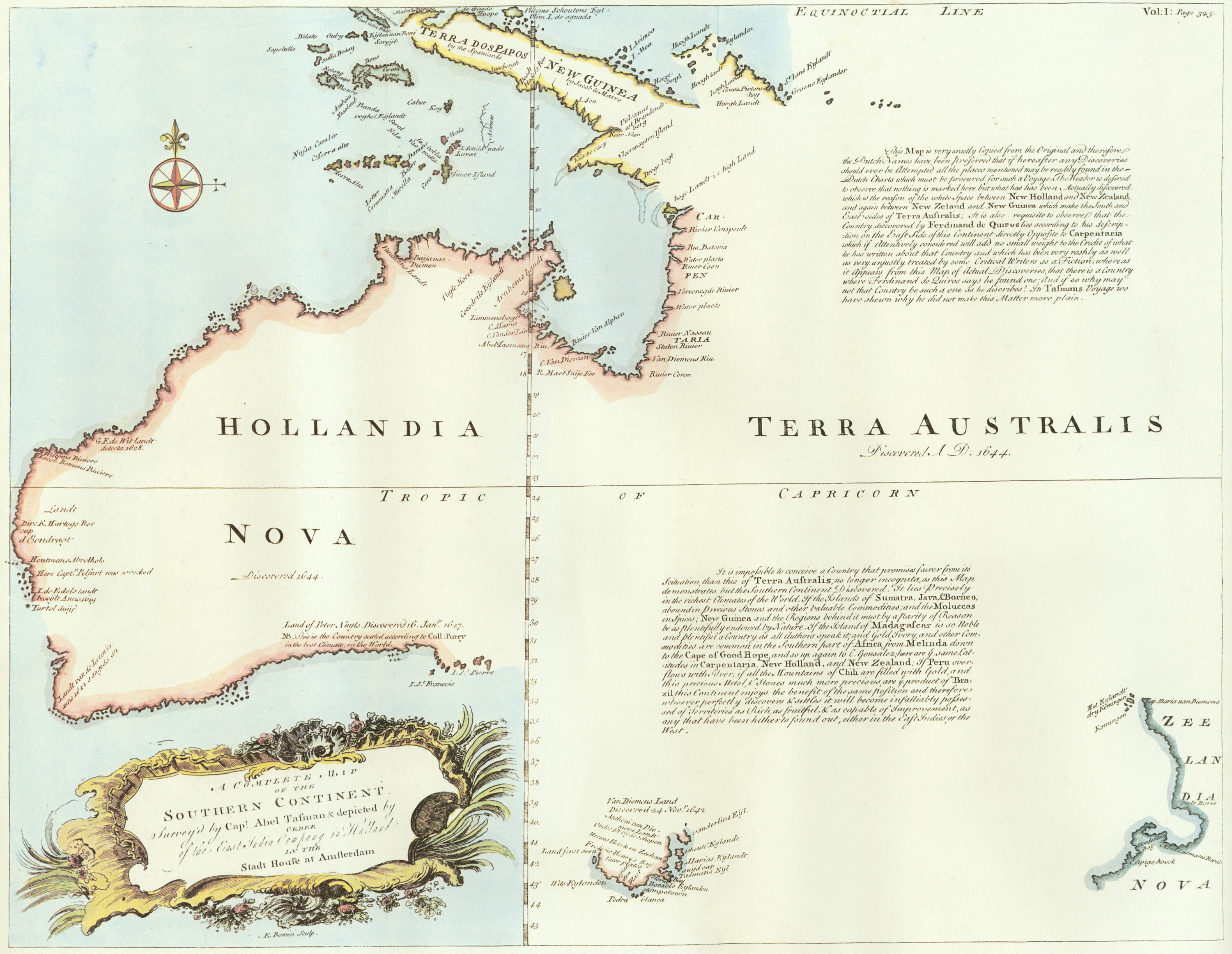 A Complete map of the Southern Continent survey'd by Capt. Abel Tasman & depicted by order of the East India Company in Holland in the Stadt House at Amsterdam; E. Bowen, Sculp. [1]